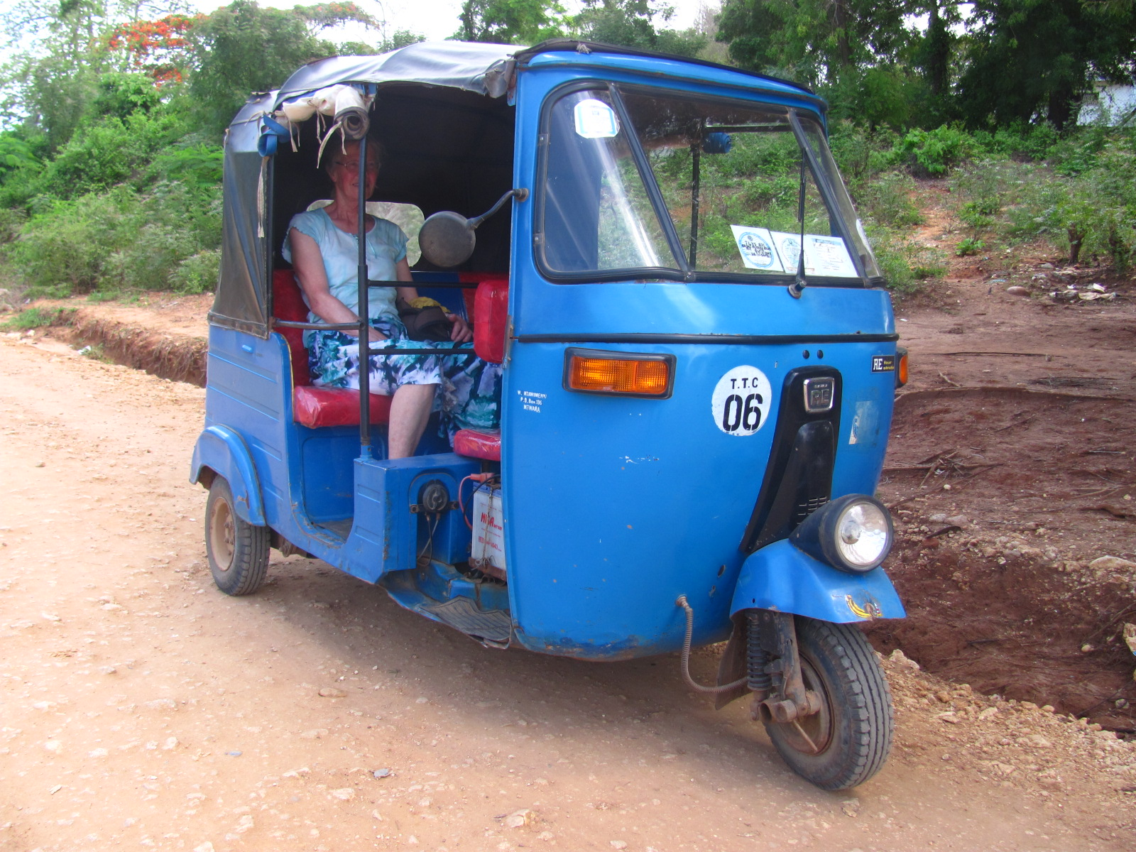 Locally known as Bajaji, these popular little vehicles have been introduced to Mtwara Region since 2007. They ply for hire at low cost compared with taxis.